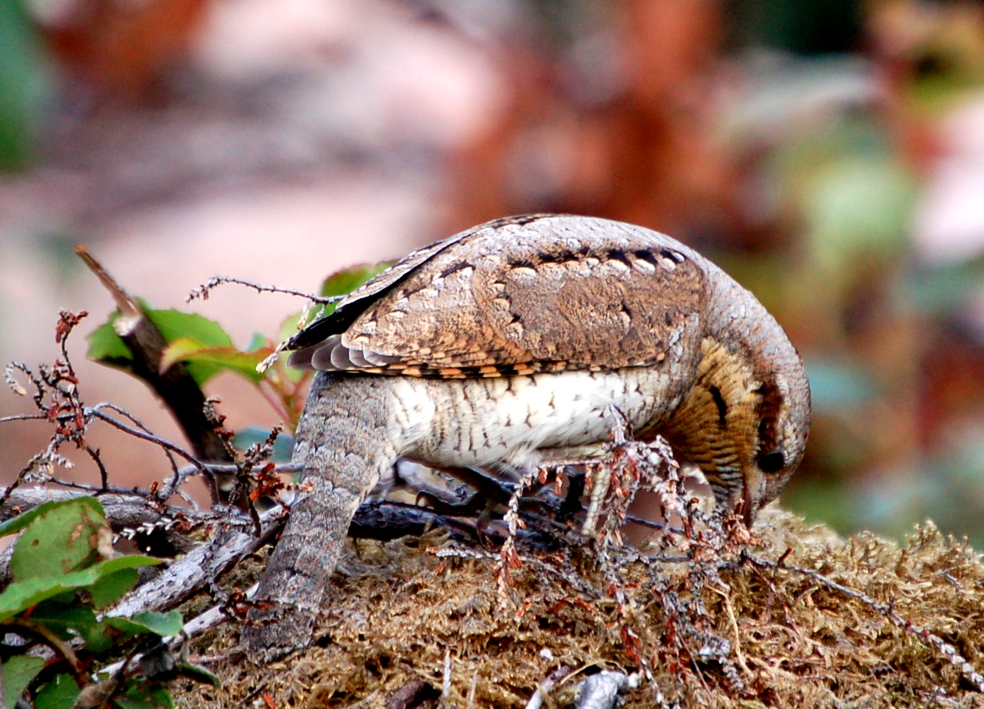 A Eurasian Wryneck in Ramsøy, Norway.